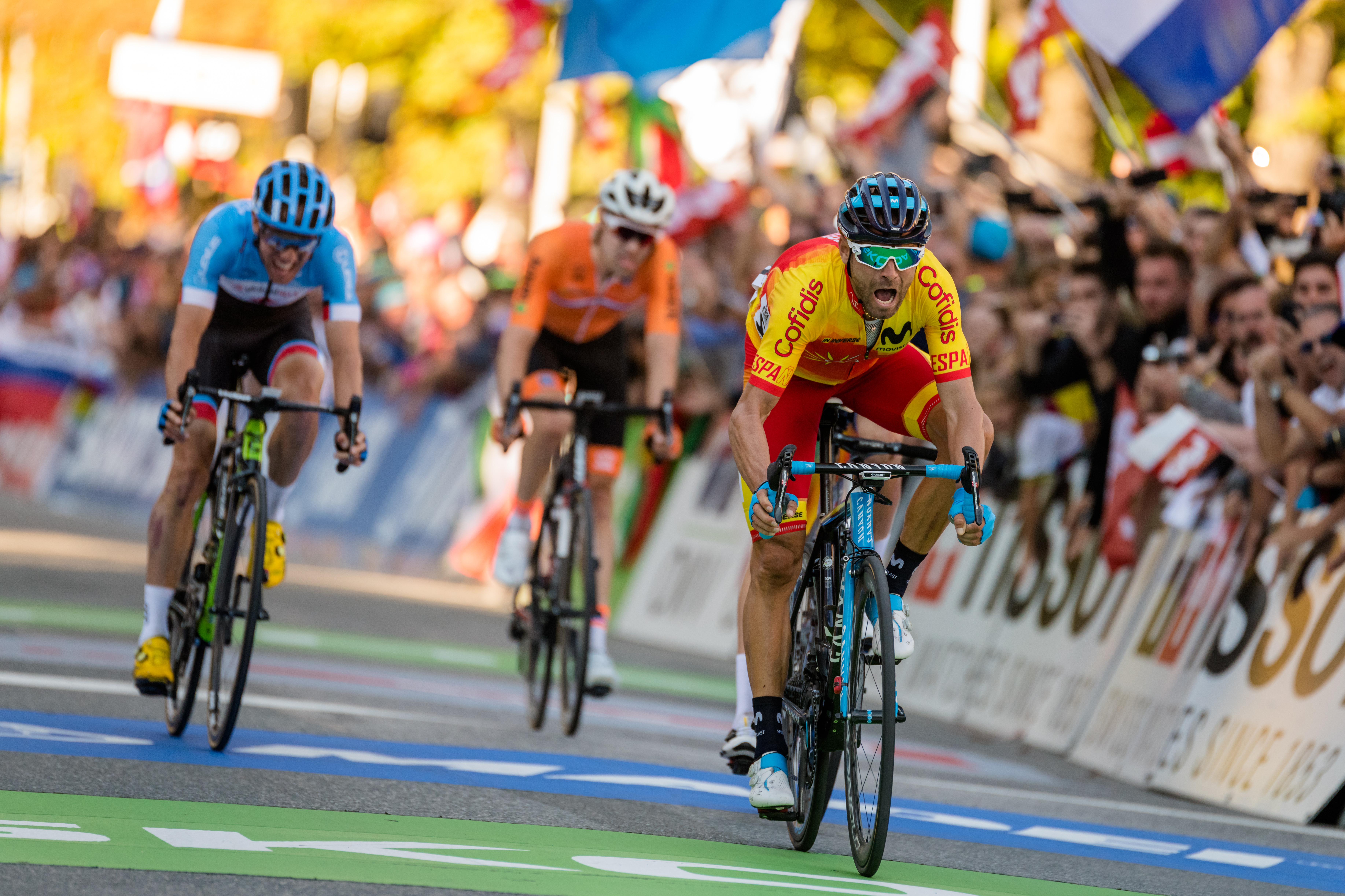 2018 UCI Road World Championships Innsbruck/Tirol Men Elite Road Race. Picture shows: Alejandro Valverde of Spain wins the final sprint against Romain Bardet of France, Michael Woods of Canada and Tom Dumoulin of the Netherlands